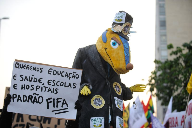 Protests during the World Fights against the Cup Day at Avenida Presidente Vargas, downtown Rio de Janeiro.In the signs:"We want education and health, FIFA standard schools and hospitals.""Cup for whom?"